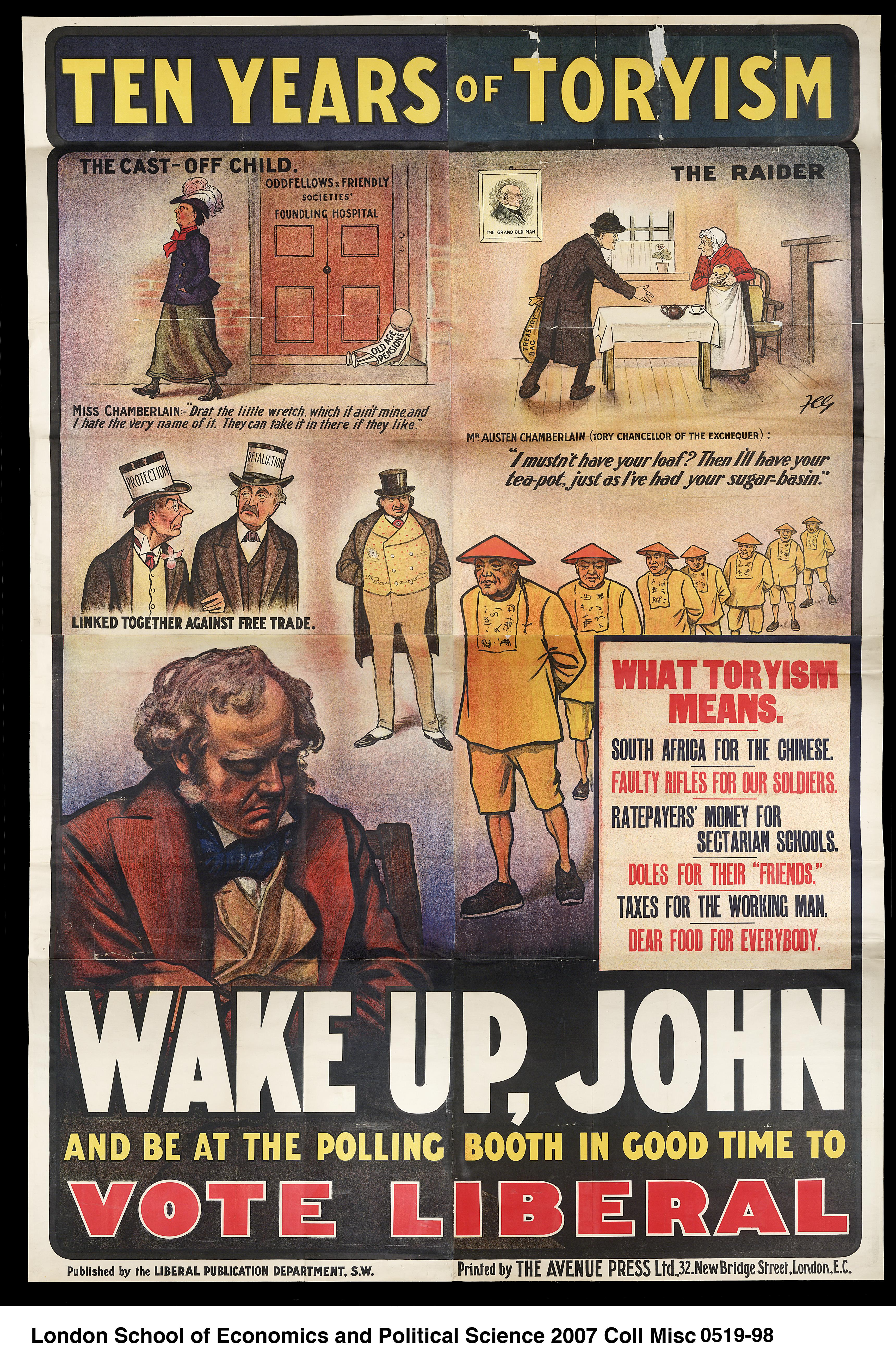 Produced by the Liberal Party for the forthcoming election. Lists and illustrates the Tory record during the previous Government and identifies various shortcomings such as its Free Trade record, South Africa and taxes. Size is approximately 2x3 metres in size. Artist: unknown Printer: Avenue Press Publisher: Liberal Party Place of Publication: unknown Date: c1905-c1910 Persistent URL: misc 0519/98')